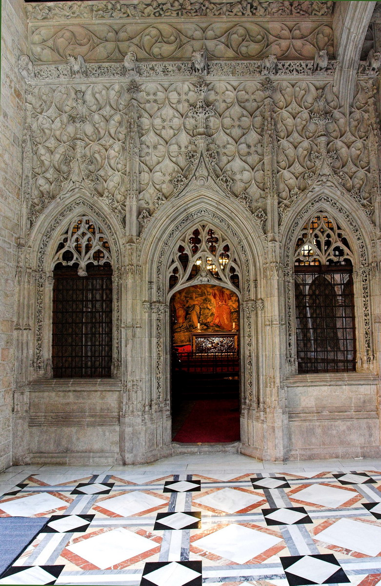 St.Jordi chapel of Palau de la Generalitat (Catalan Government Seat) in Barcelona. 15th century - by Marc Safont.